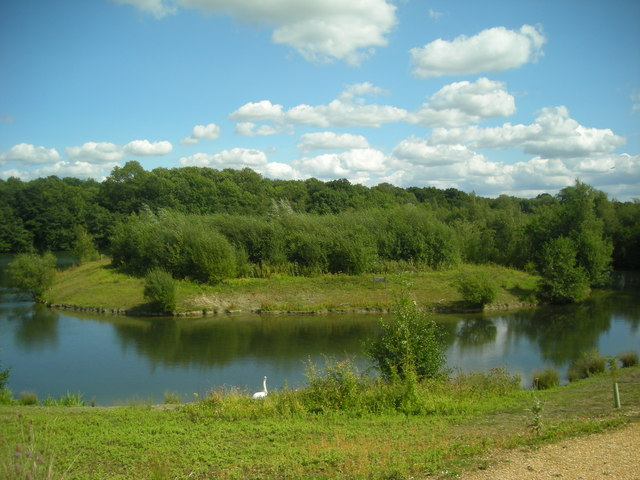 Newdigate Brickworks Nature Reserve Newdigate Brickworks opened in c.1928 and was a successful business for many years. The works closed during the Second World War and much of the site became derelict, but handmade bricks were made here on a smaller scale after the war, the trade lasting until 1974. The site then lay derelict until 2004, when a housing development was built on the old factory site and the four lakes left over from quarrying became a public nature reserve managed by the Surrey Wildlife Trust. The reserve covers 43 acres of lake, grassland and woodland near the centre of this grid-square.